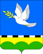 Coat of arms of Mirskói,Kavkazskaya Raion, Krasnodar Krai, Russia.